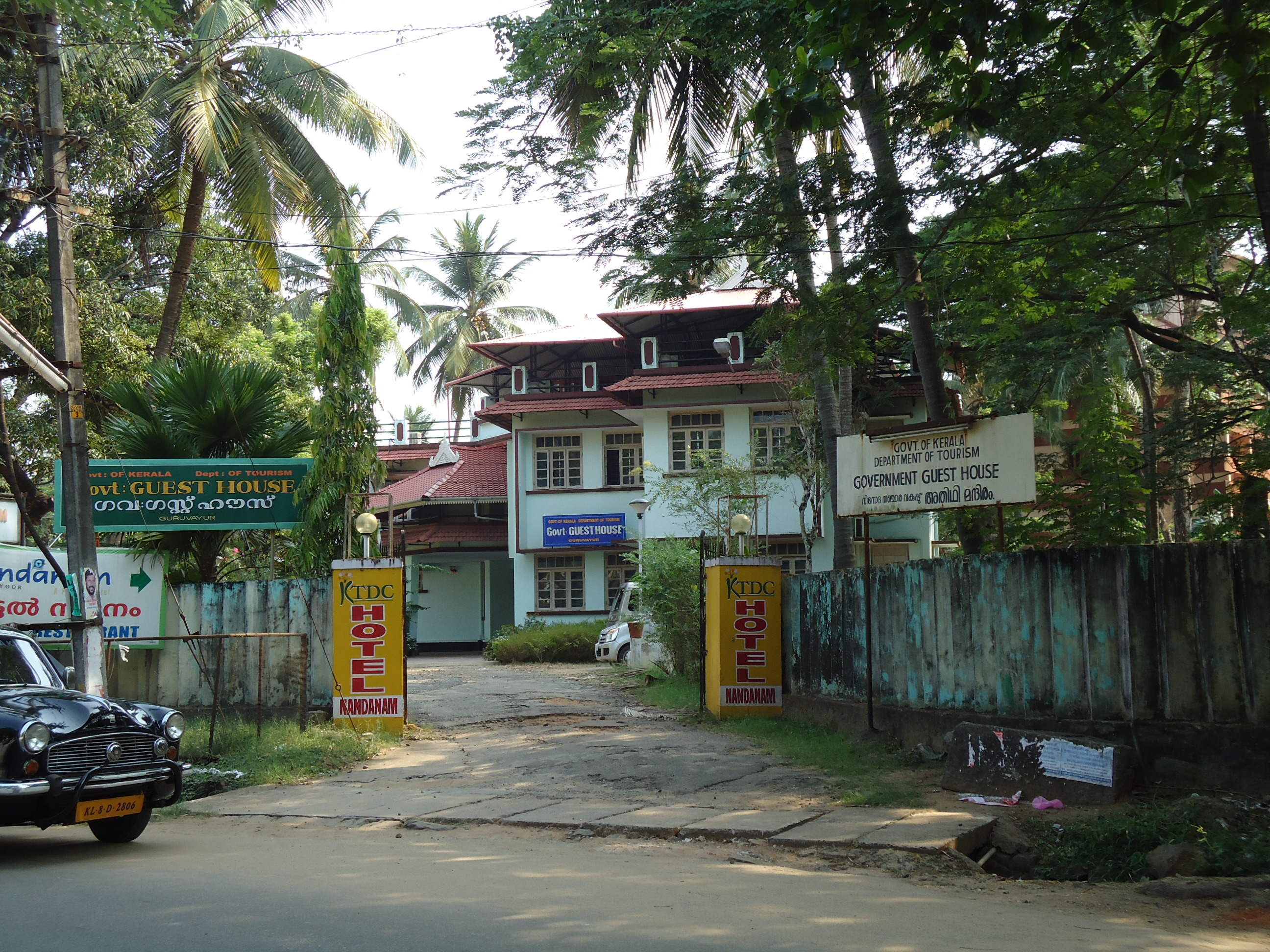 This media file is uploaded with Malayalam loves Wikimedia event.